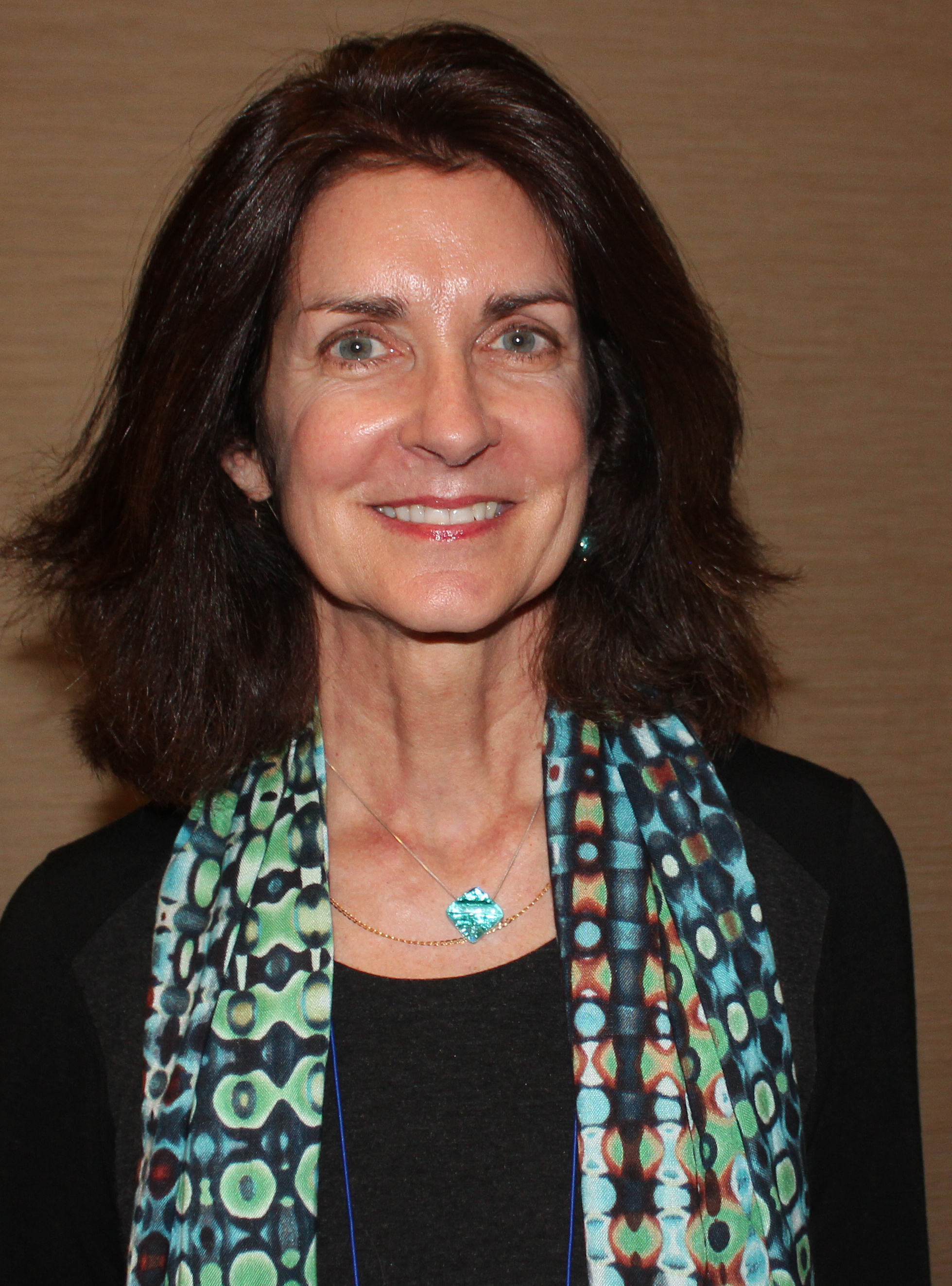 Blue Balliett, an American teacher and author of children's books.